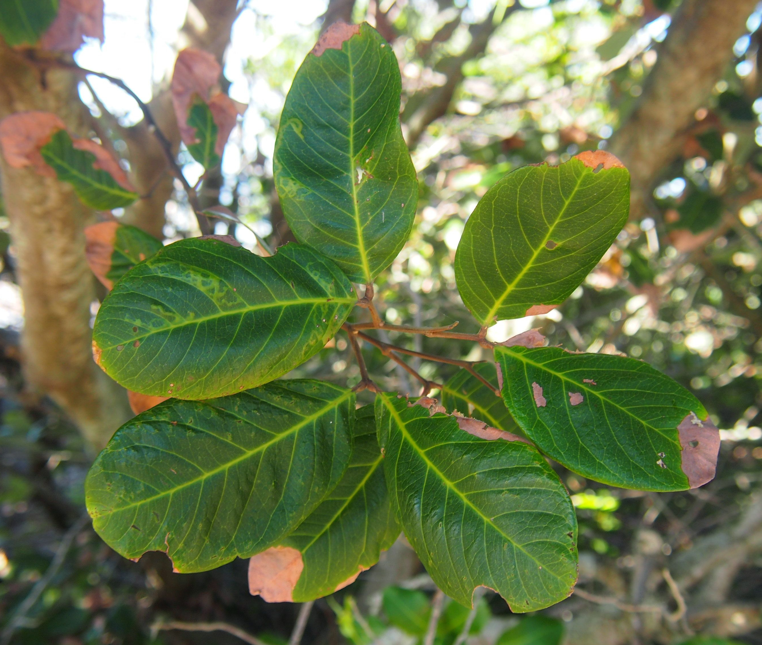 Alectryon connatus foliage